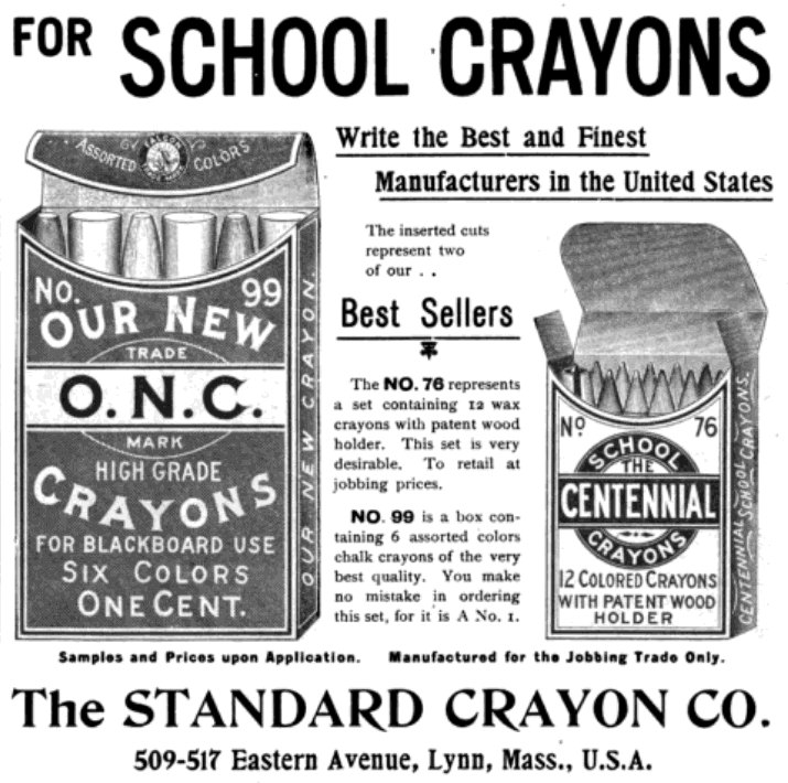 Standard Crayon Co. crayon ad with pictures substantiating their age and place in crayon history